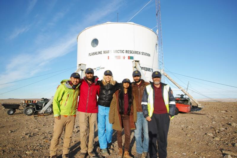 The FMARS 14 Crew (2017) in front of the Flashline Mars Arctic Research Station on Devon Island.